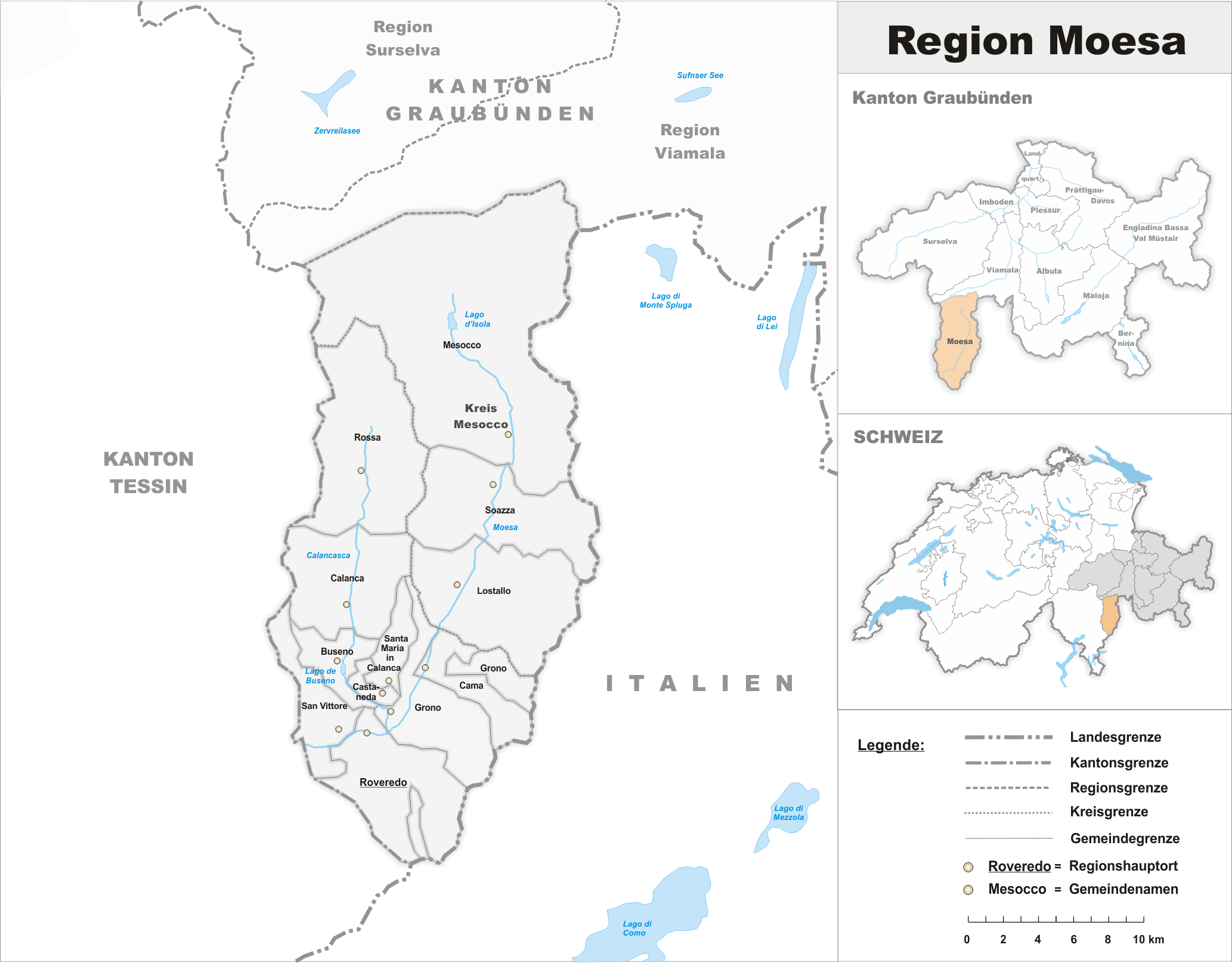 Municipalities in the district of Moesa